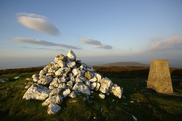 Slieau Freoaghane Summit This is one of the five Marilyn tops of the Isle of Man. Its quartzite cairn is particularly beautiful and in this October evening cloudscape, Slieau Dhoo can be seen in the distance.